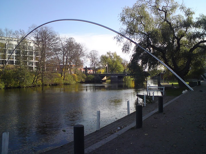 Stångån, Linköping, 2008.